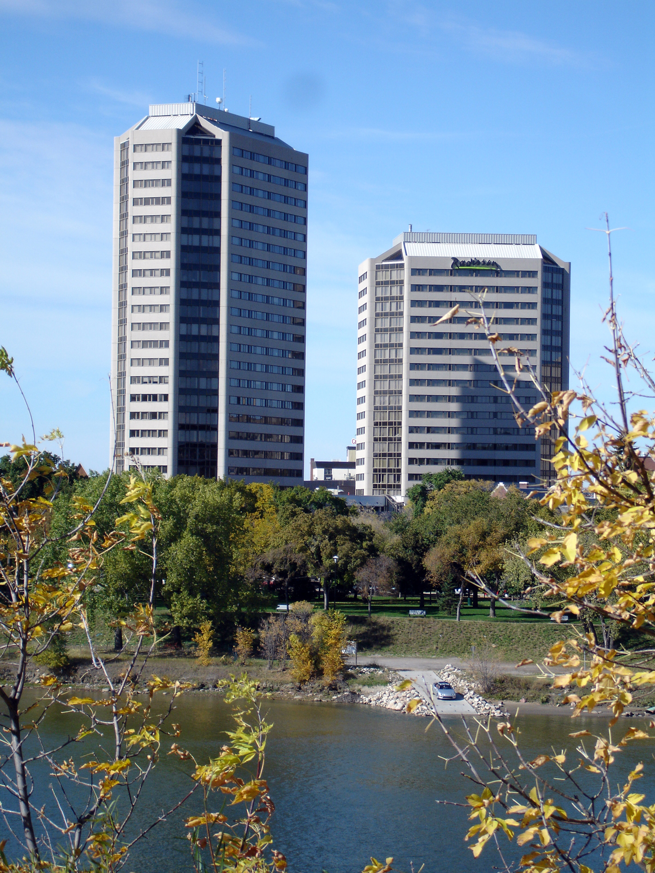 La Renaissance (left) and Radisson Hotel (right) towers in downtown Saskatoon, Saskatchewan, Canada.